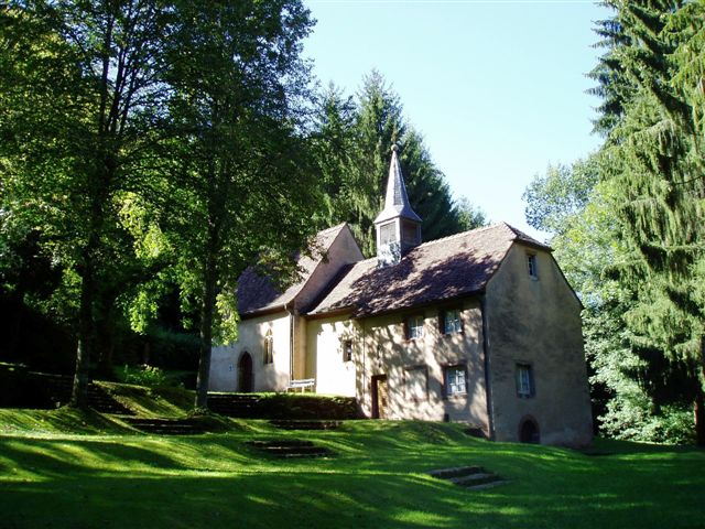 Chapel Saint-Verena in Enchenberg, Moselle, France.